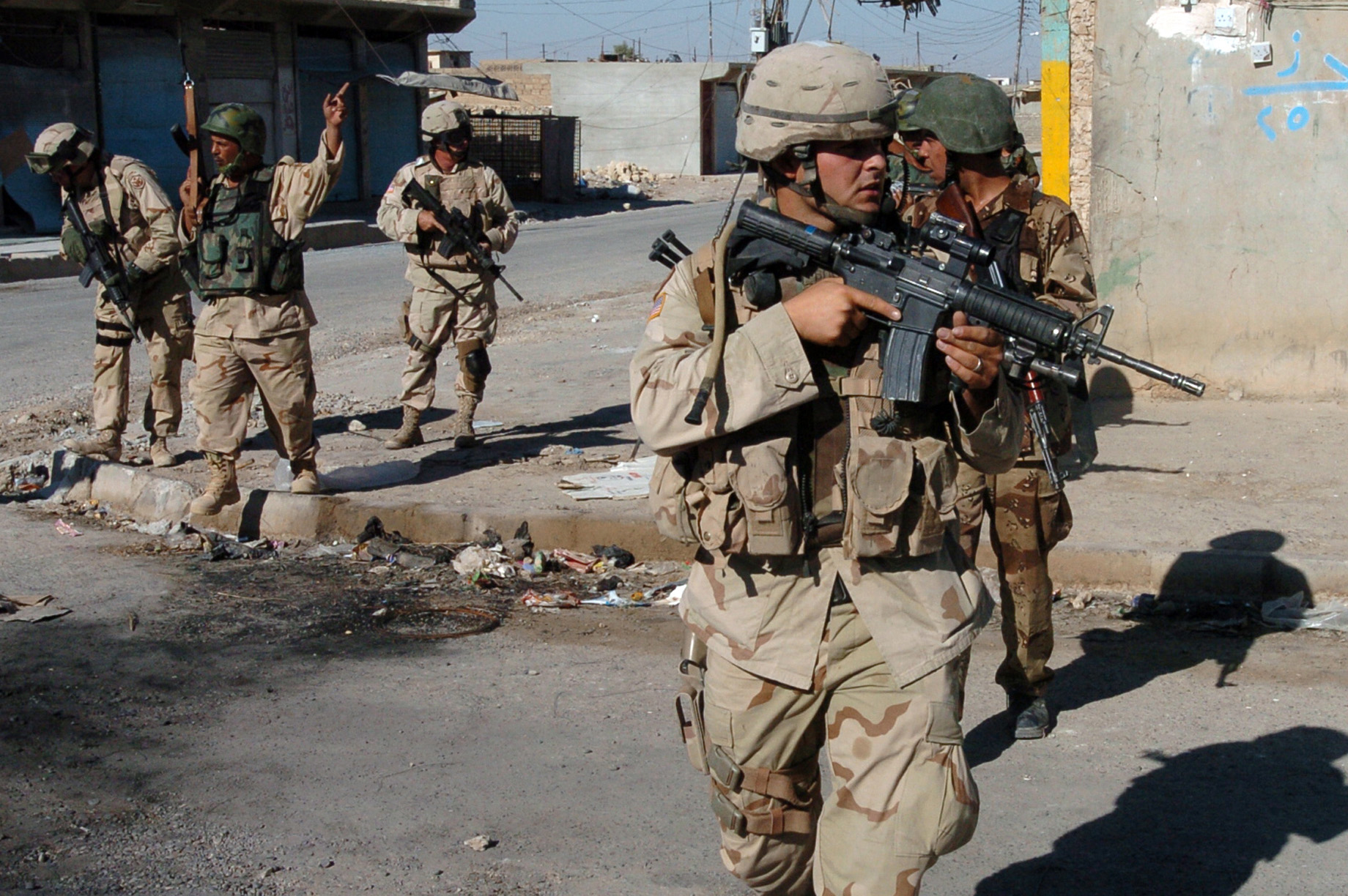 U.S. Army and Iraqi soldiers cross an intersection during a routine security patrol in downtown Tal Afar, Iraq, on Sept. 11, 2005. Iraqi army security forces, with assistance from the 3rd Armored Cavalry Regiment, are providing security for the region of Tal Afar in order to disrupt insurgent safe havens and to clear weapons cache sights in the area of operation.